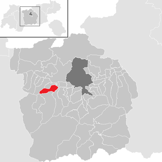 District Innsbruck Land